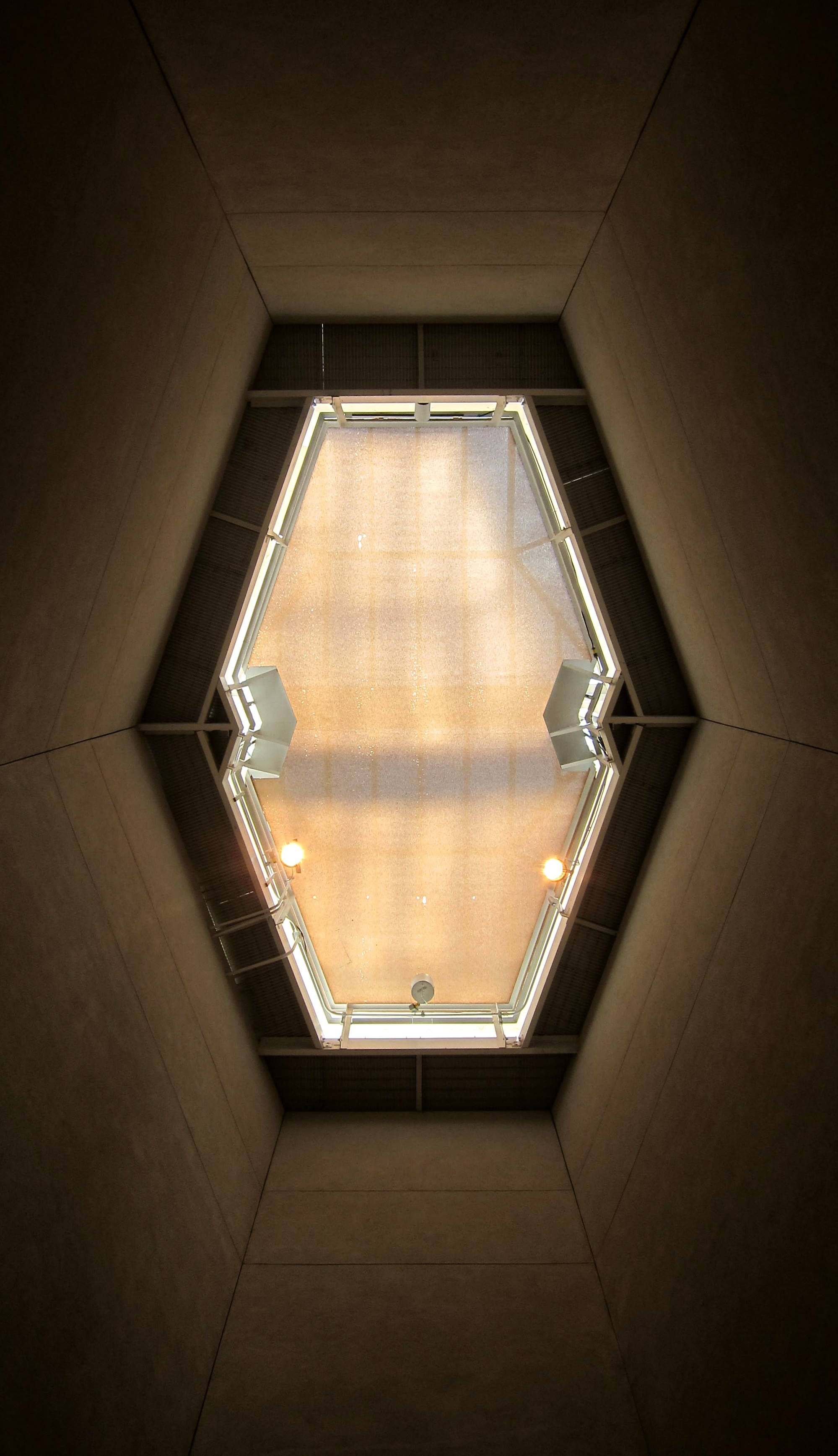 the National Gallery of Art's East Building, Tower Gallery (main tower, pictured), located on the National Mall in Washington, D.C.